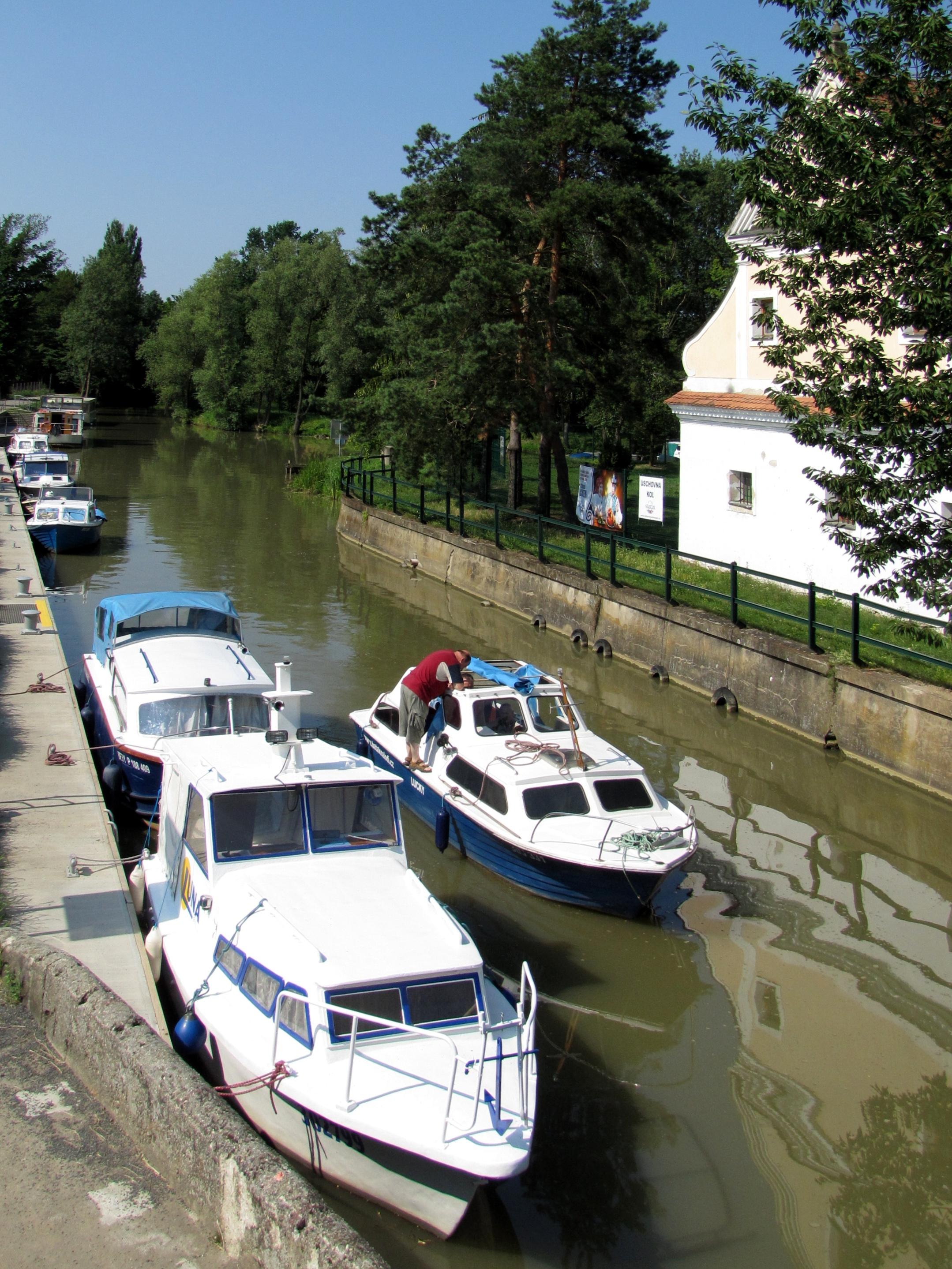 Strážnice, Hodonín District, Czechia.